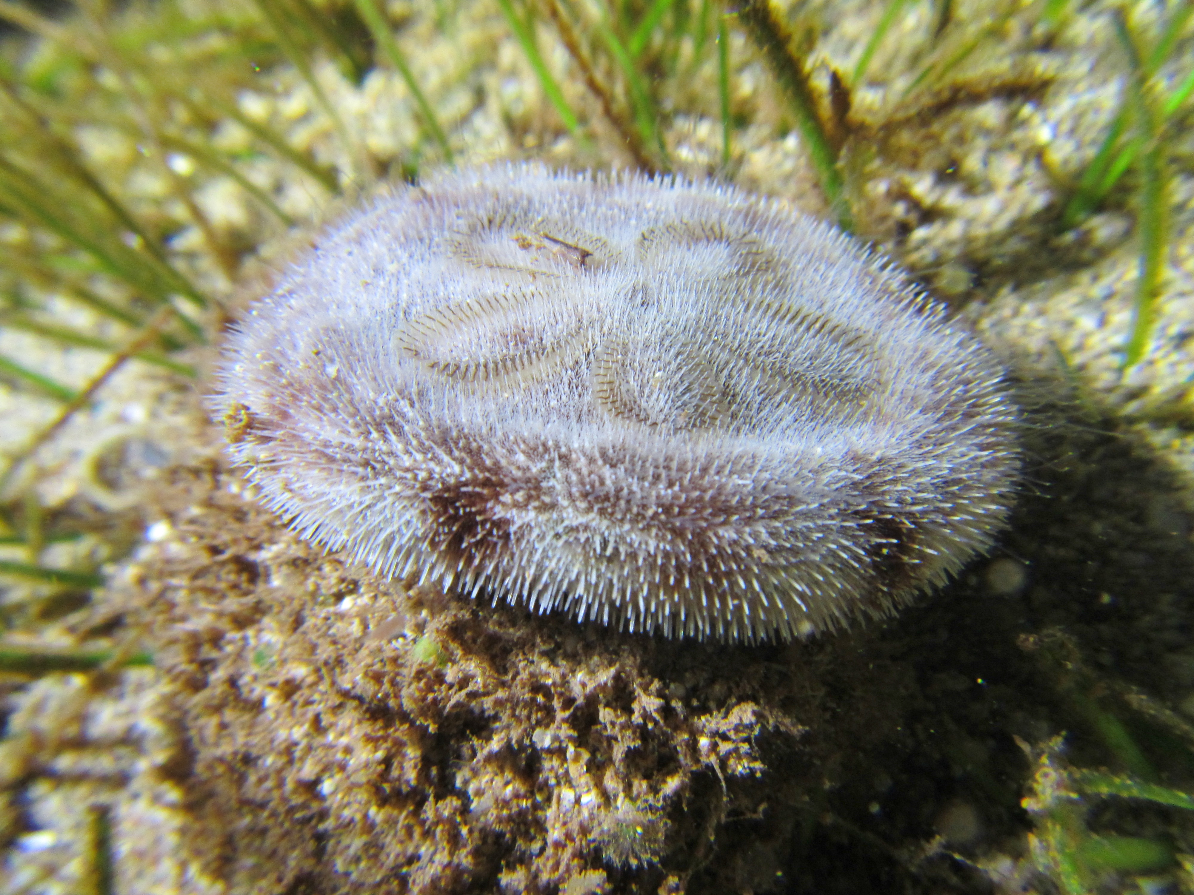 A flat sea urchin (or "sand dollar") Clypeaster reticulatus seen in Mayotte.